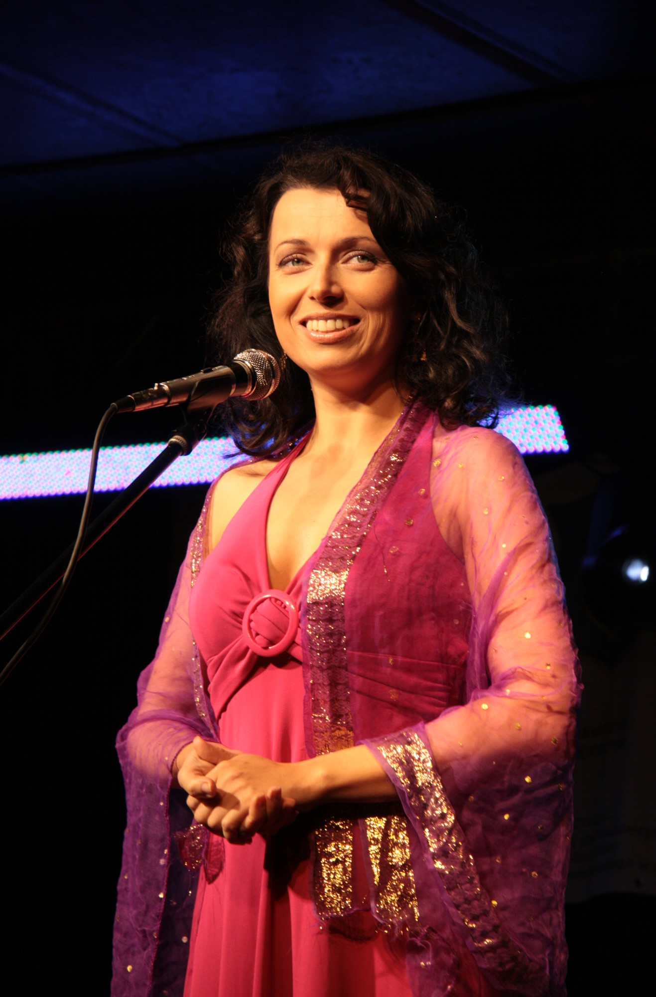 Katarzyna Pakosińska, Polish artist cabaret, actress and journalist TV Polonia.